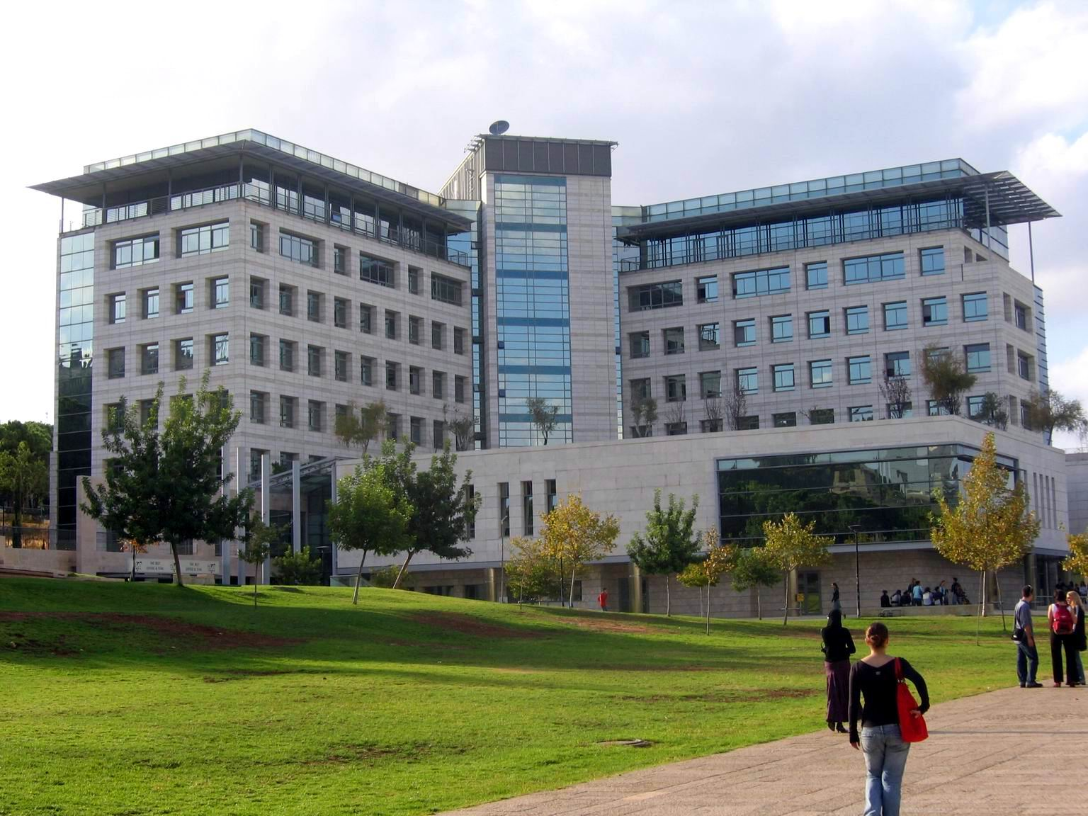 The CS (Computer Science) (also called "Taub") building in the Technion, Haifa, Israel, which I'll be attending for the next four years.